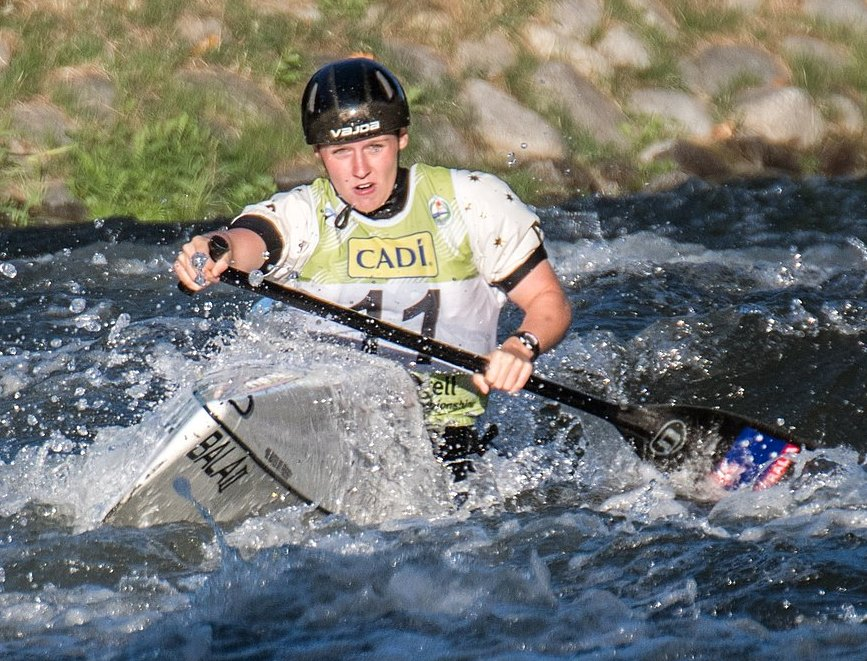 Madison Wilson during the 2019 Canoe Wildwater World Championships in La Seu d'Urgell, Spain.